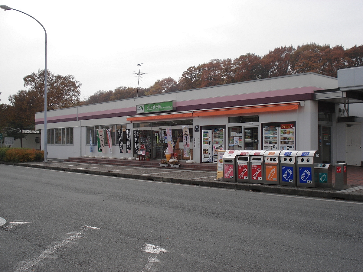 This rest area, Kitakami-Kanegasaki Parking Area（for Aomori）, is on Tohoku Expressway, in Kitakami city, Iwate Prefecture, Japan.